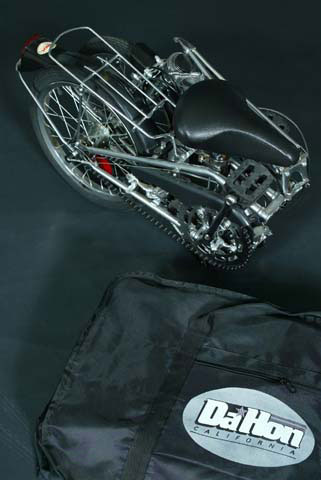 A folding bicycle in the permanent collection of The Children’s Museum of Indianapolis